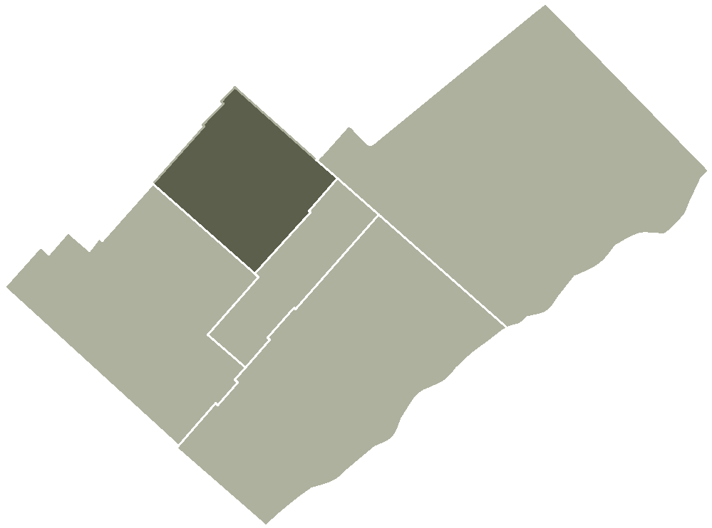 Location of the "San Miguel" locality in the "San Miguel Partido" of the "Greater Buenos Aires", Argentina.